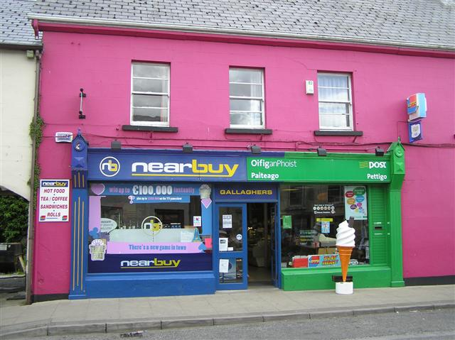 Paiteago Oifig an Phoist / Pettigoe Post Office It is located at the village centre.